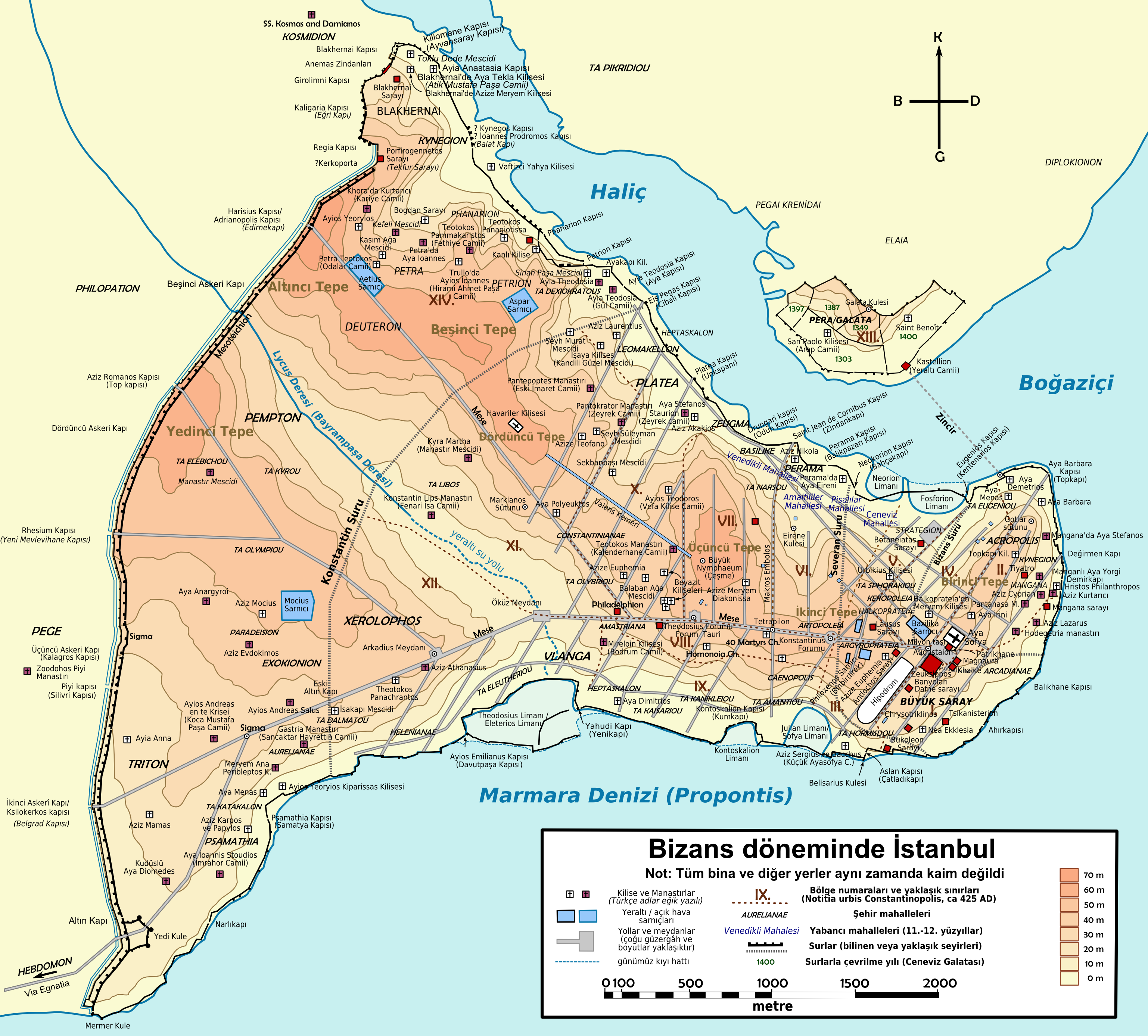 Topographical map of Constantinople (present day Istanbul) during the Byzantine period. Main map source: R. Janin, Constantinople Byzantine. Developpement urbain et repertoire topographique. Road network and some other details based on Dumbarton Oaks Papers 54; data on many churches, especially unidentified ones, taken from the University of New York's The Byzantine Churches of Istanbul project. Other published maps and accounts of the city have been used for corroboration.